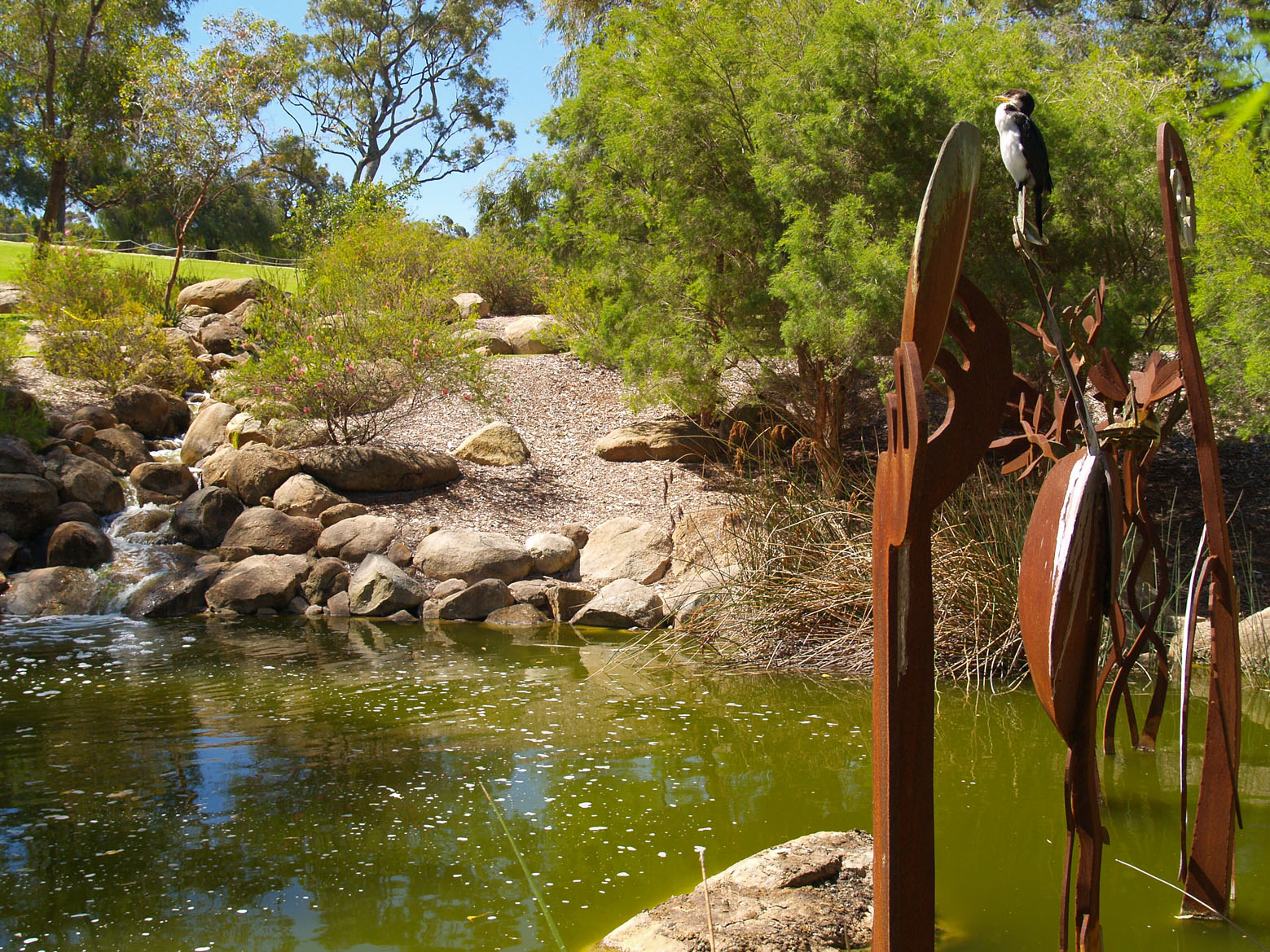 Kings Park Perth Australia